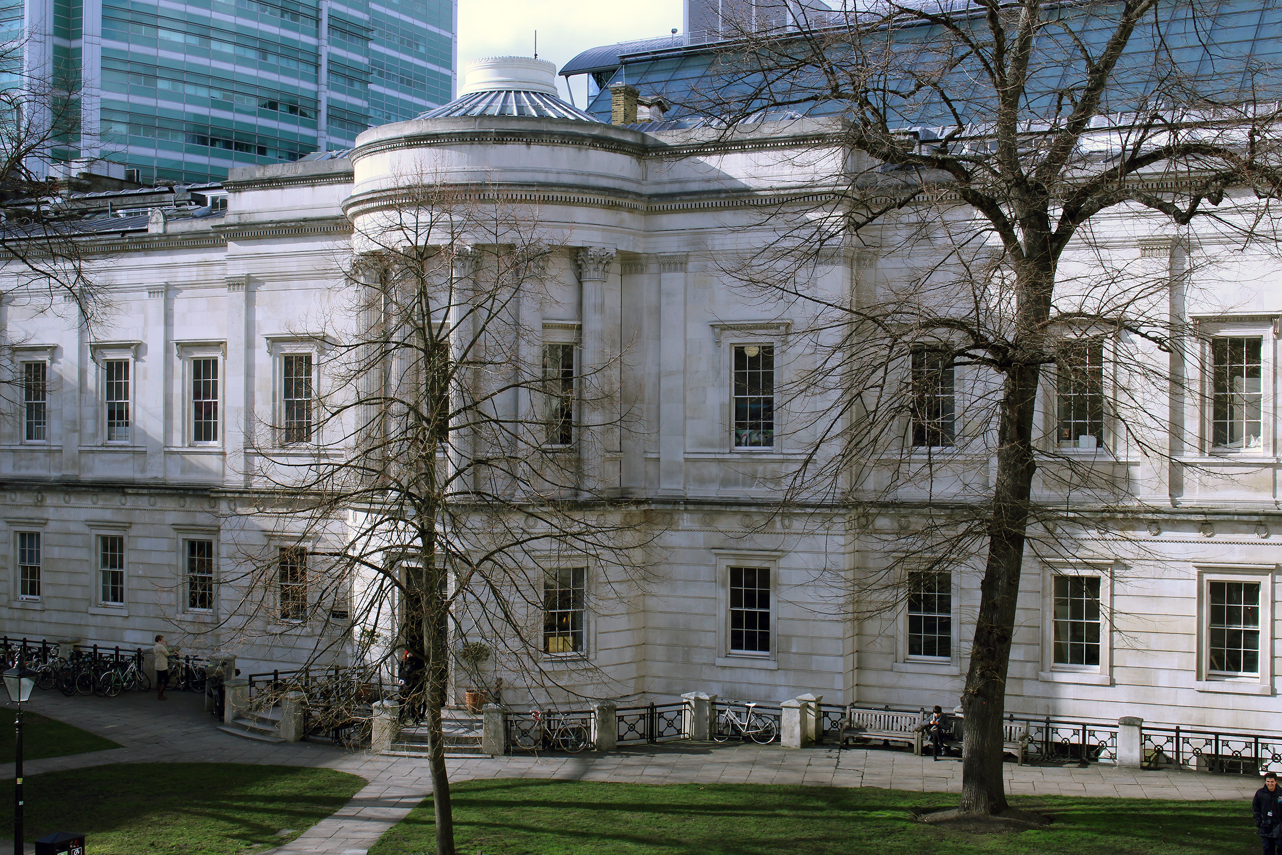 The North Wing of the UCL Wilkins Building, home to the Slade School of Fine Art. This building was originally home to UCL's chemistry department, and housed the labs and offices in which William Ramsay carried out his research. Here, he discovered neon, argon, krypton and xenon, as well as isolating helium for the first time. He won the 1904 Nobel Prize in Chemistry. More elements were discovered in this building than in any other in the world. Photo credit: O. Usher (UCL)